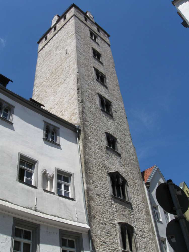 Regensburg, Golden Tower, Germany